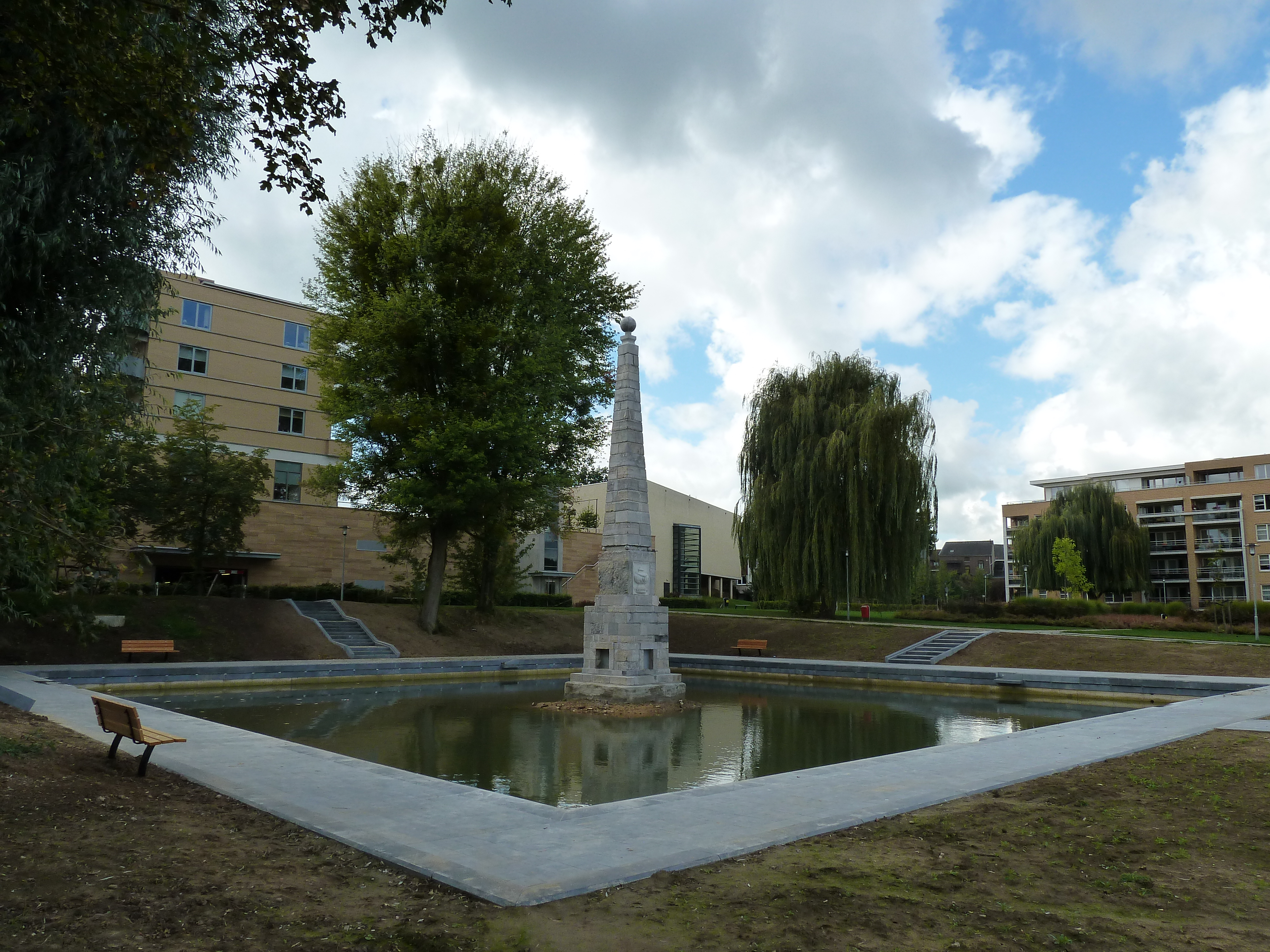 Obelisk of Vaals after restoration